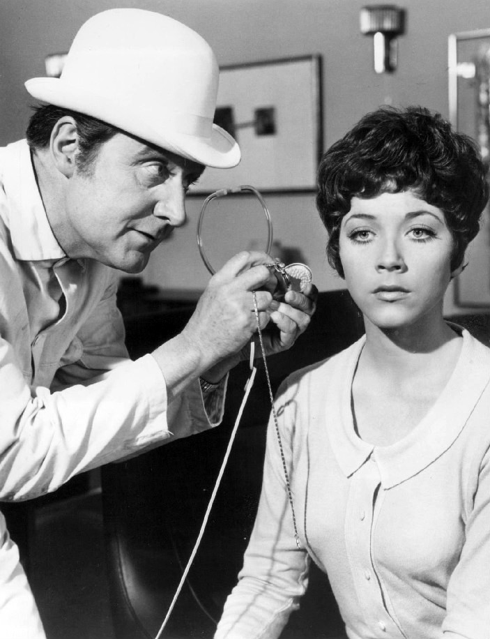 Publicity photo of Patrick Macnee and Linda Thorson from the television program The Avengers.